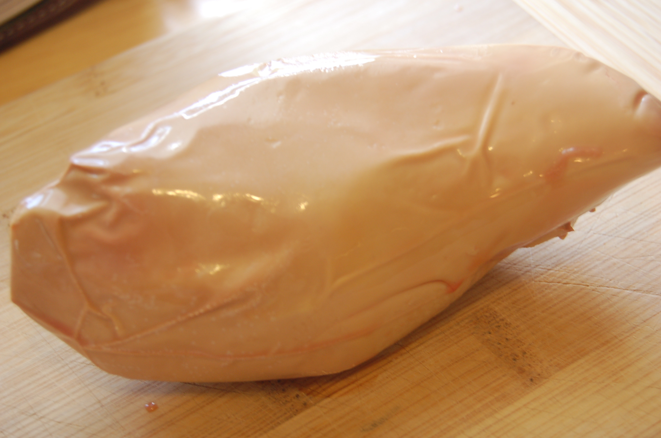 foie gras, gas flush packaging